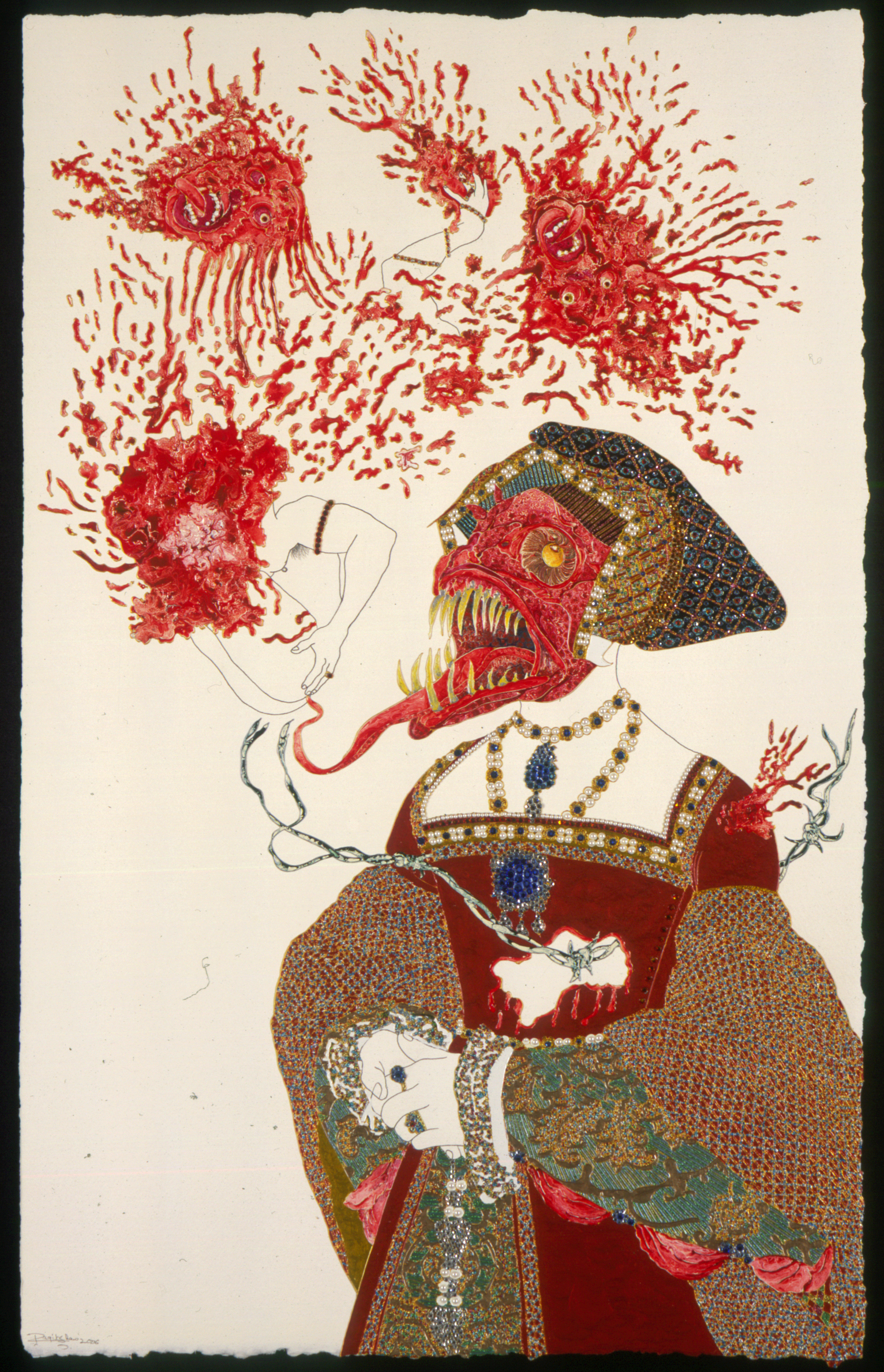 Raqib Shaw. Jane, 2006